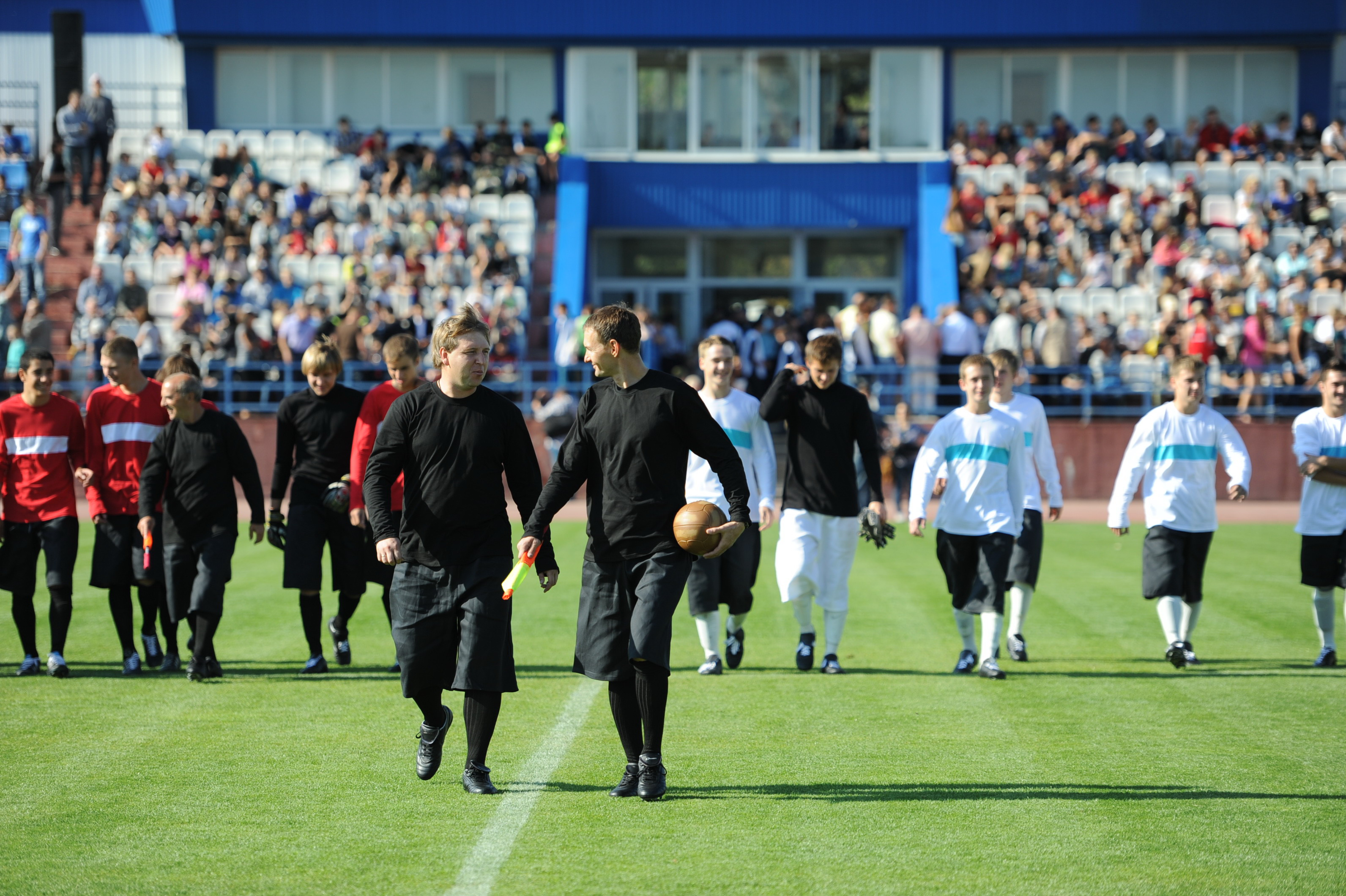 Reconstruction of the match "On the ruins of Stalingrad"